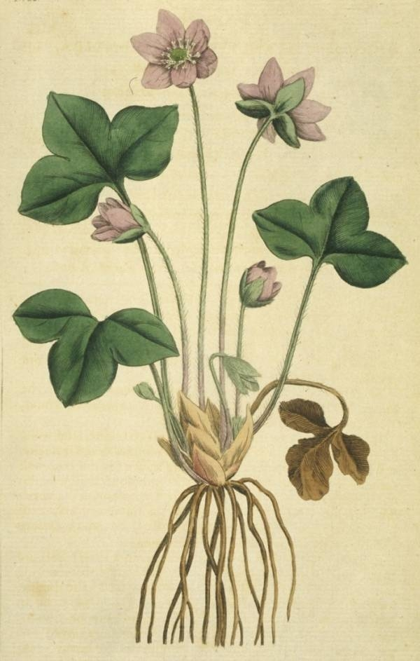 depicting the plant Hepatica nobilis and given the title: Hepatica